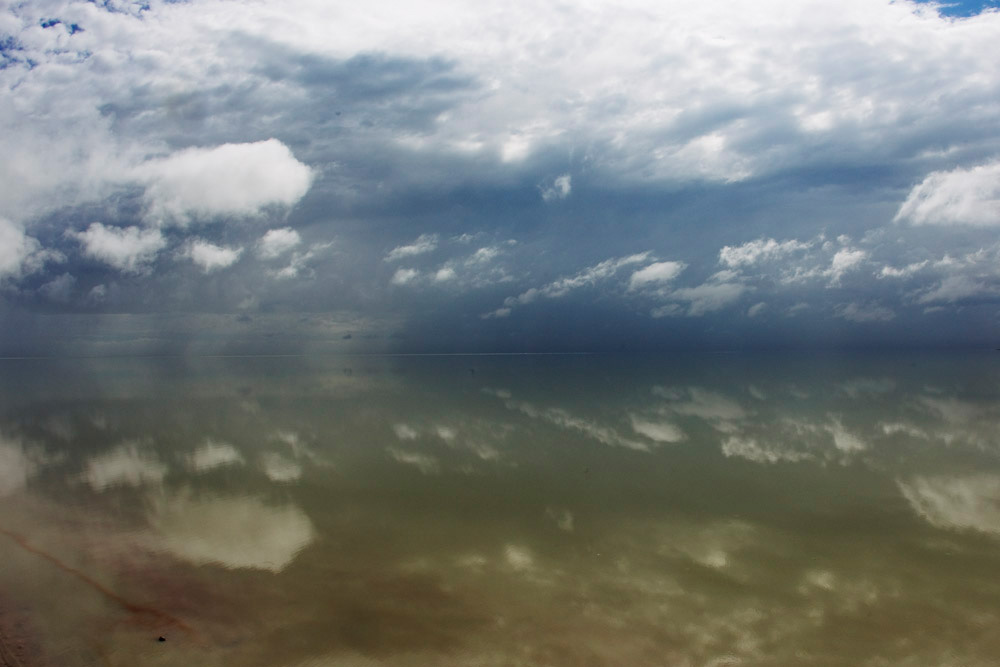 Etosha Pan with Water / April 2011